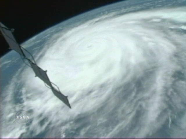 A screenshot by myself taken from NasaTV. It shows Hurricane Dean over the Caribbean. It was taken around August 18, 2007 16:40 UTC.